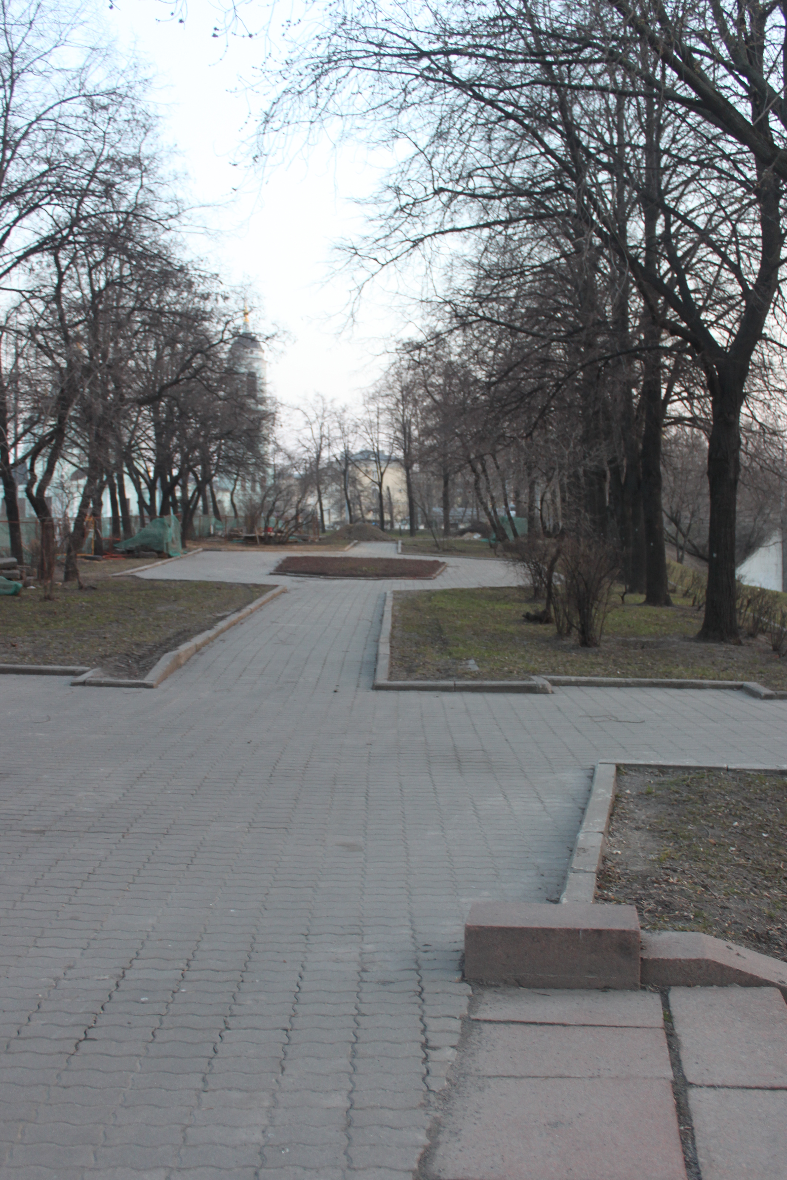 Andronievskaya embankment.